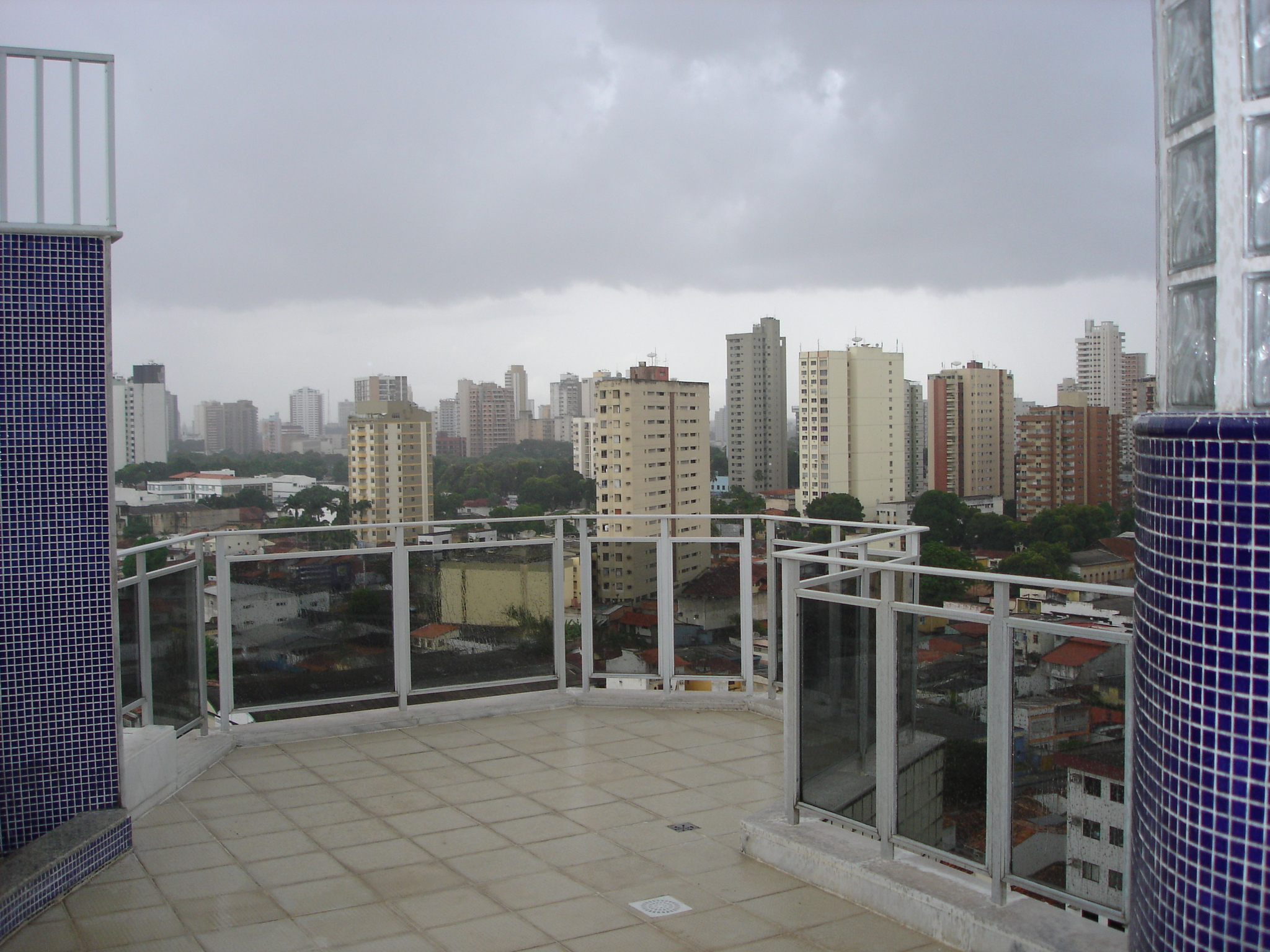 Photography of Belém city, own work